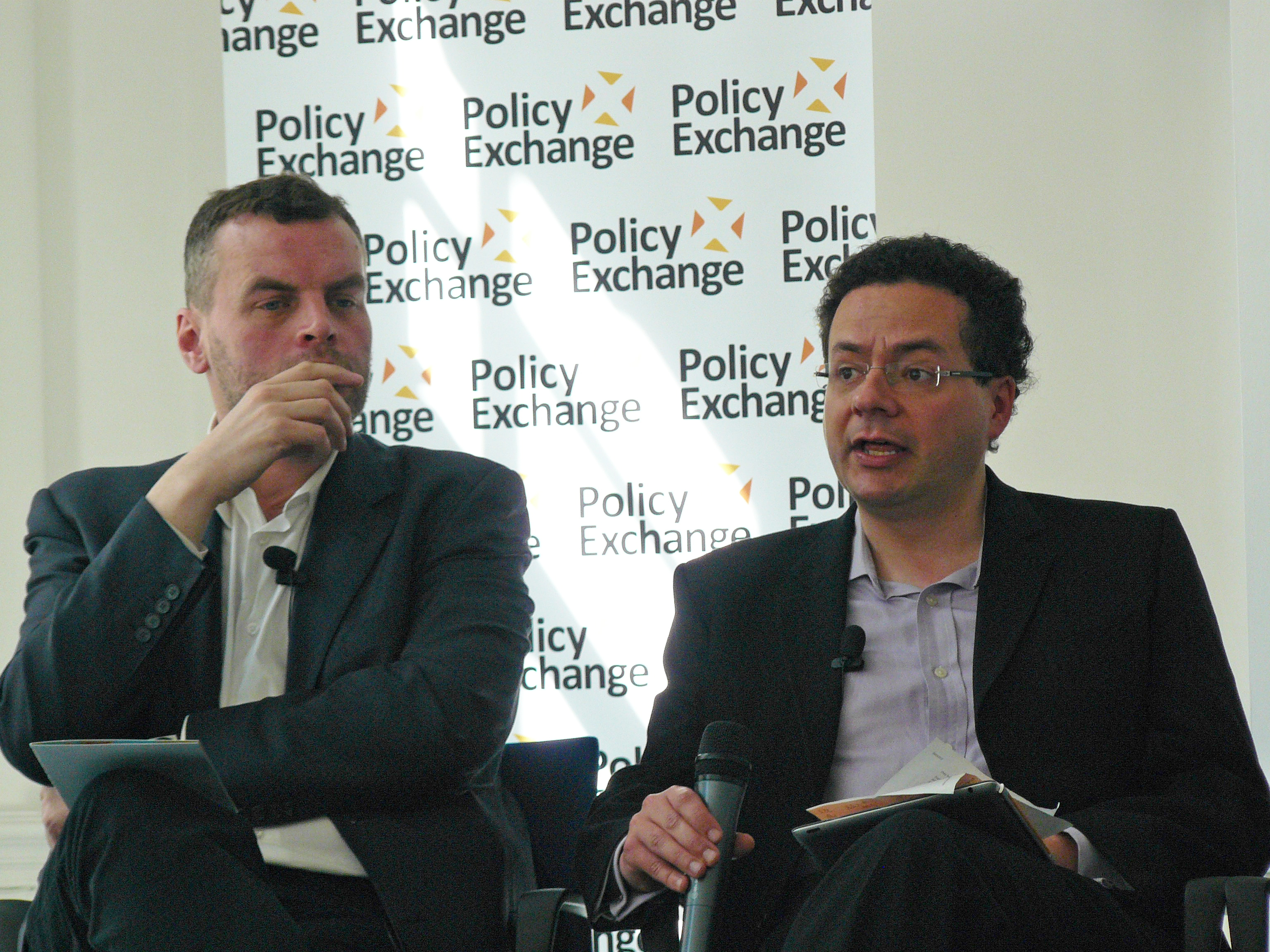 ConservativeHome's Tim Montgomerie and Lib Dem Voice's Mark Pack speaking at the launch of PX report 'Northern Lights'